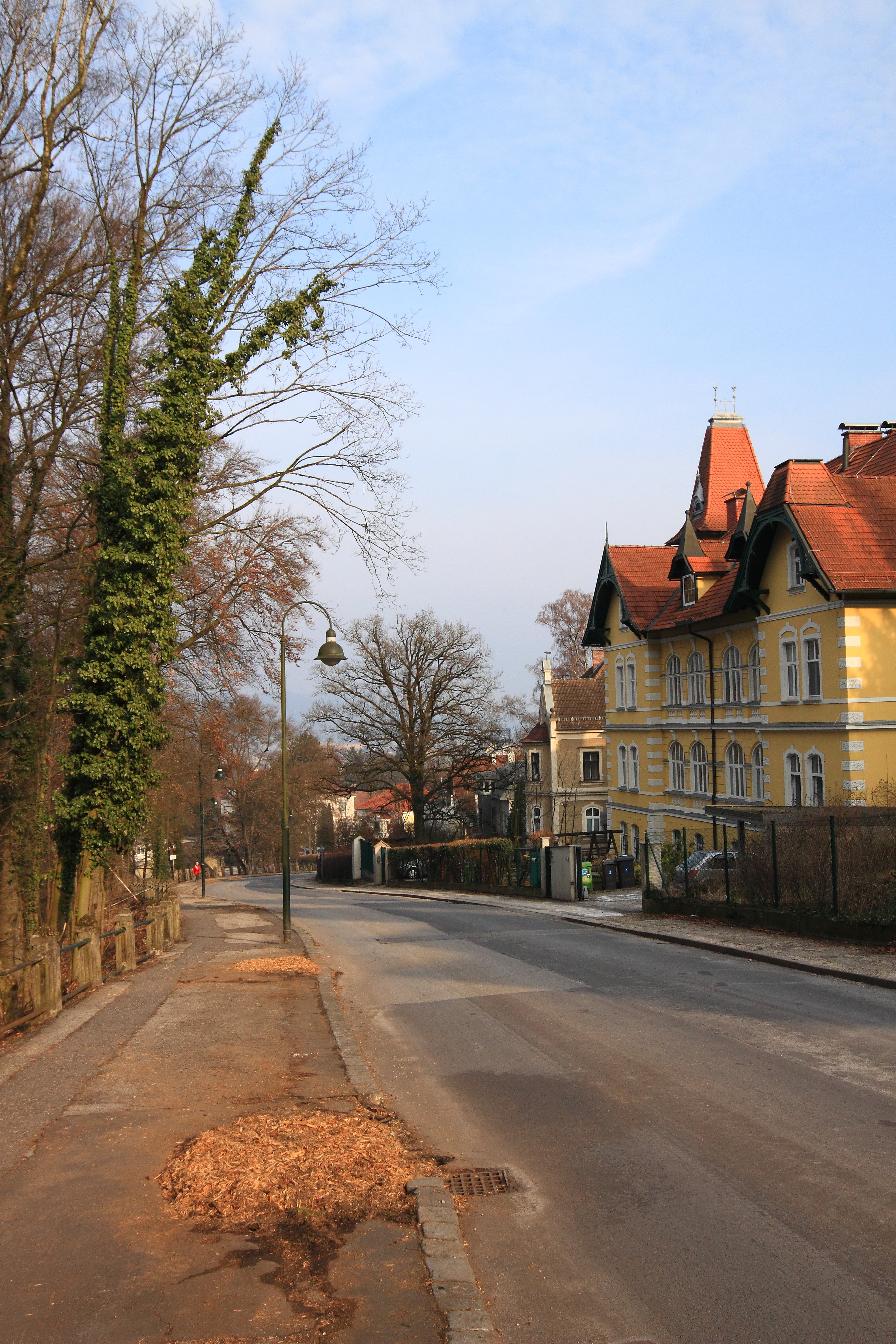 The northern part of the Römerstraße in Linz.